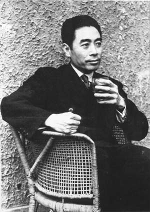 Zhou Enlai at No.17 Meiyuan Xincun, Nanjing, 1946.